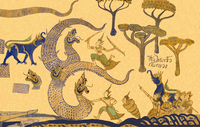 This mural shows a pivotal time in the story of Sinxay when it is made clear Sinxay's six brothers are cowards, seen here hiding behind Siho. This photograph of a mural detail was taken at Wat Sanuan Wari in Khon Kaen, Thailand. Most of the murals at this small wat were painted over 100 years ago and feature scenes from Sinxay. Because of the degraded condition of the murals (due to bird feces and chipped and faded paint) this photograph has been retouched in Photoshop to try to approximate what the painting might have looked like.